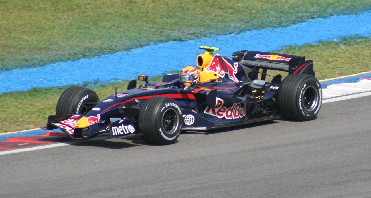 Mark Webber driving for Red Bull Racing at the 2007 Malaysian Grand Prix.